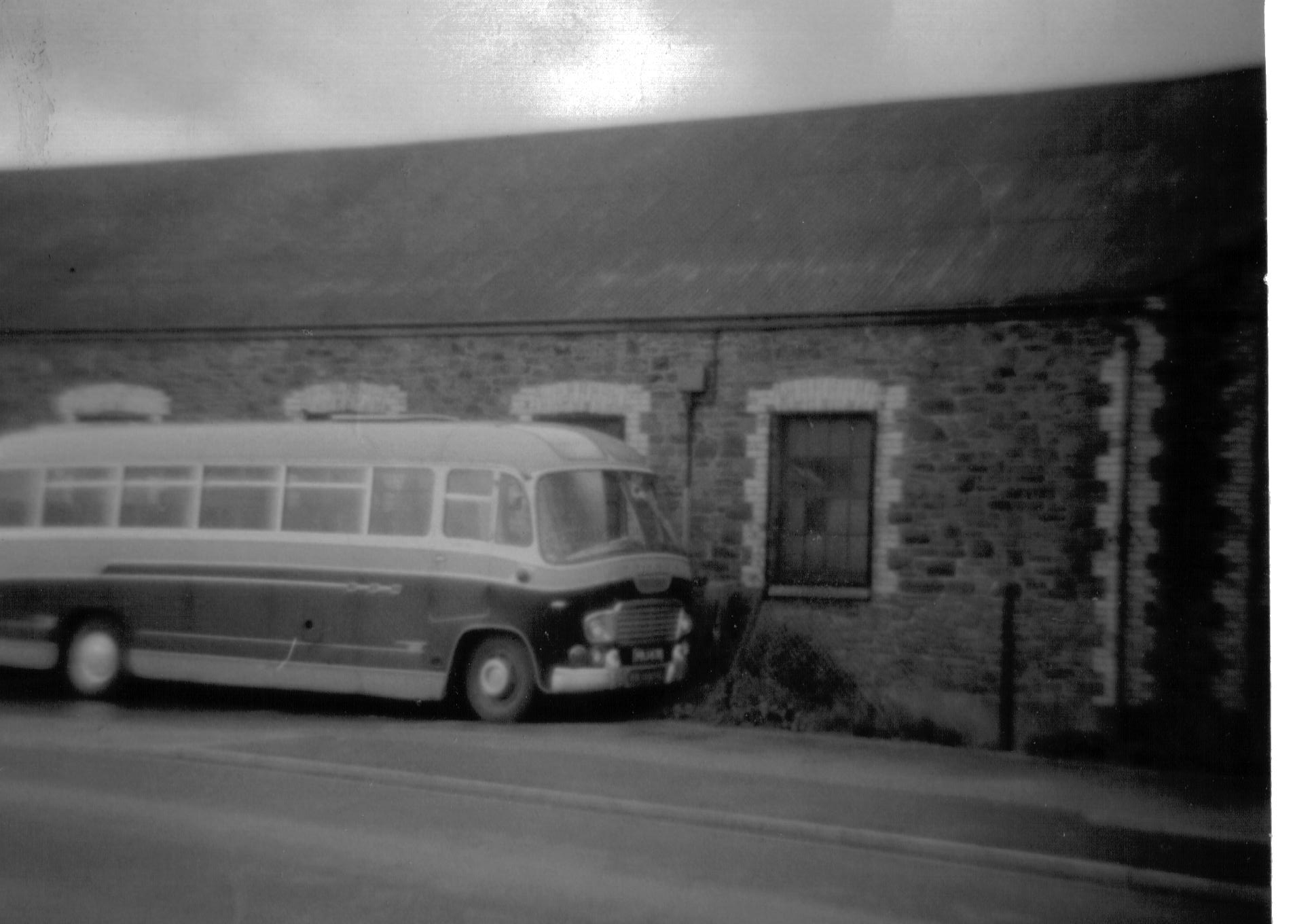 The old railway carriage shed at Bideford, North Devon, England